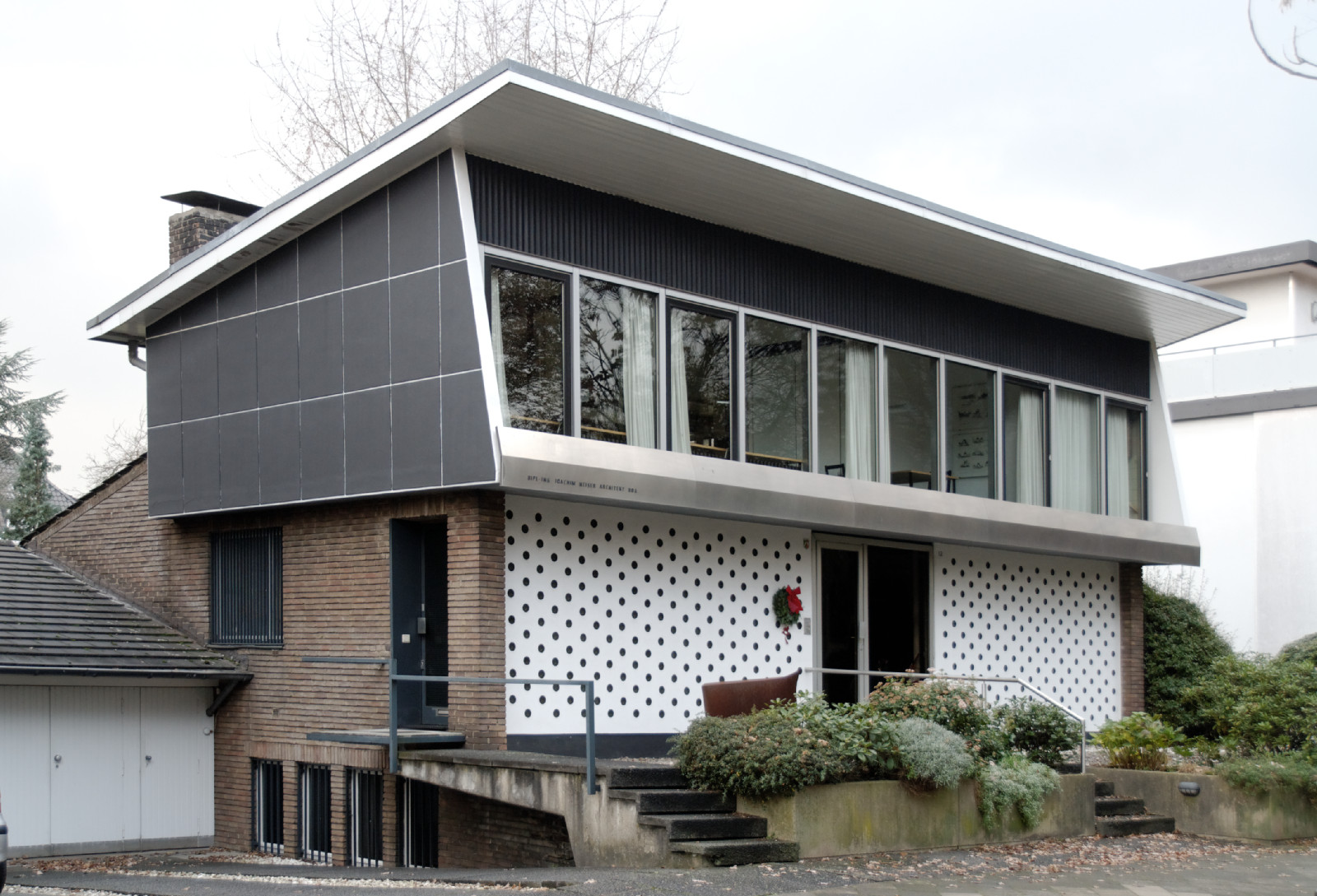 House Heinrichstraße 12 in Düsseldorf-Düsseltal, Germany